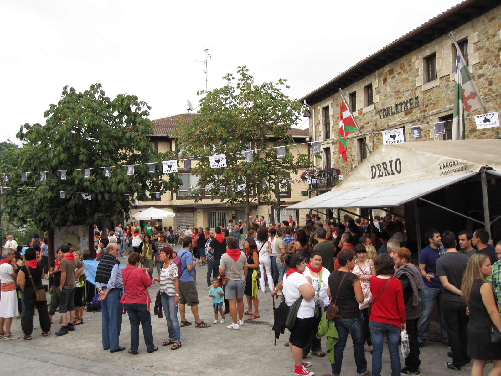 Andra Marie festival in Larrabtzu, Biscay.